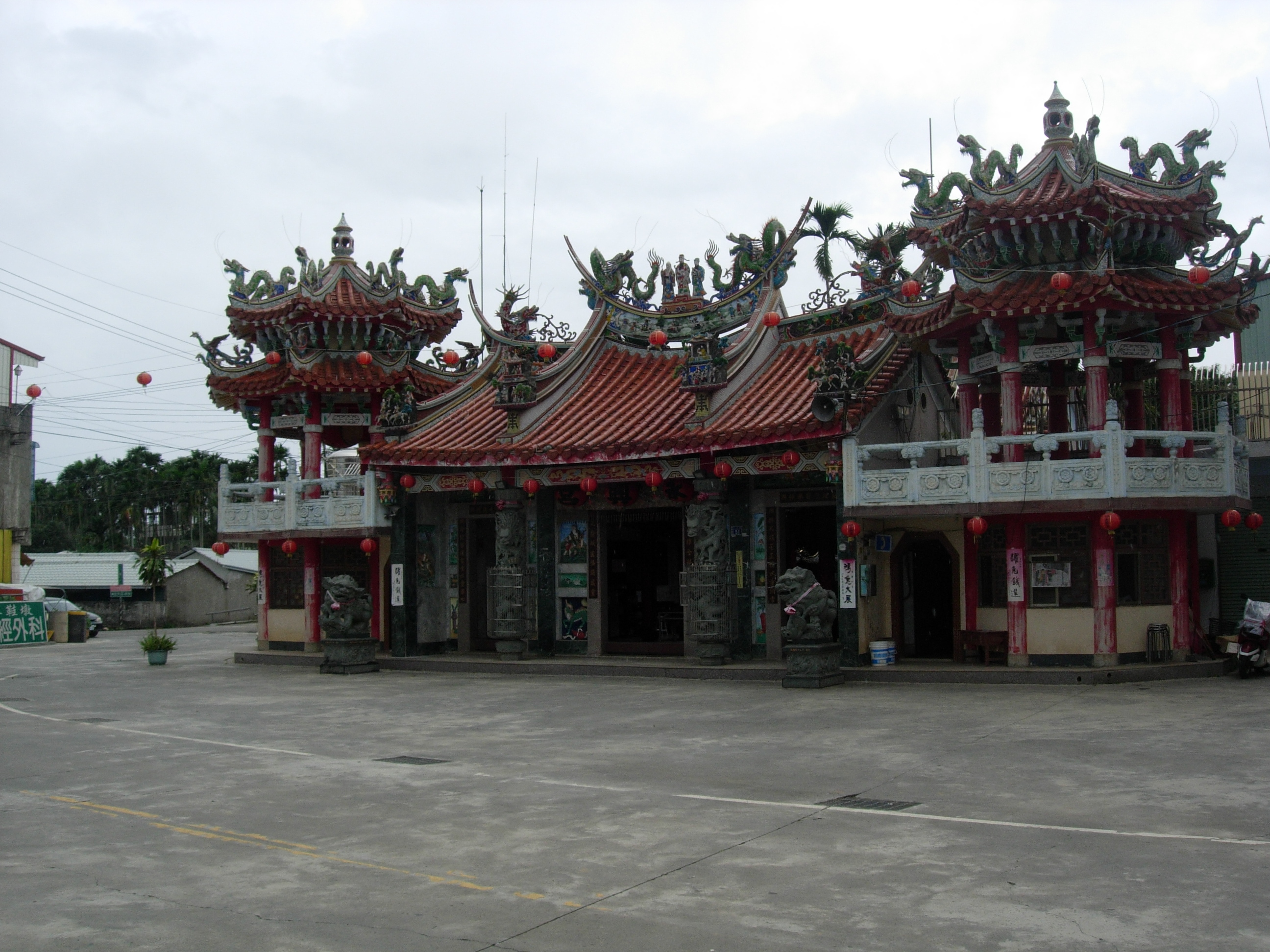 NantouCityYungsinTemple